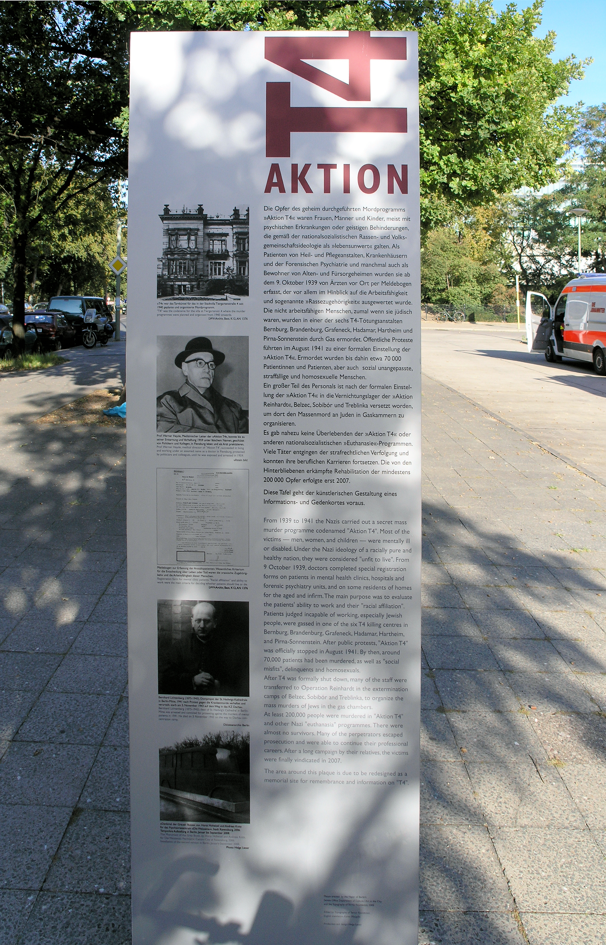 Memorial, Aktion T4, Tiergartenstraße 4, Berlin-Tiergarten, Germany Koordinate:52°30′38″N 13°22′8″E / 52.51056°N 13.36889°E